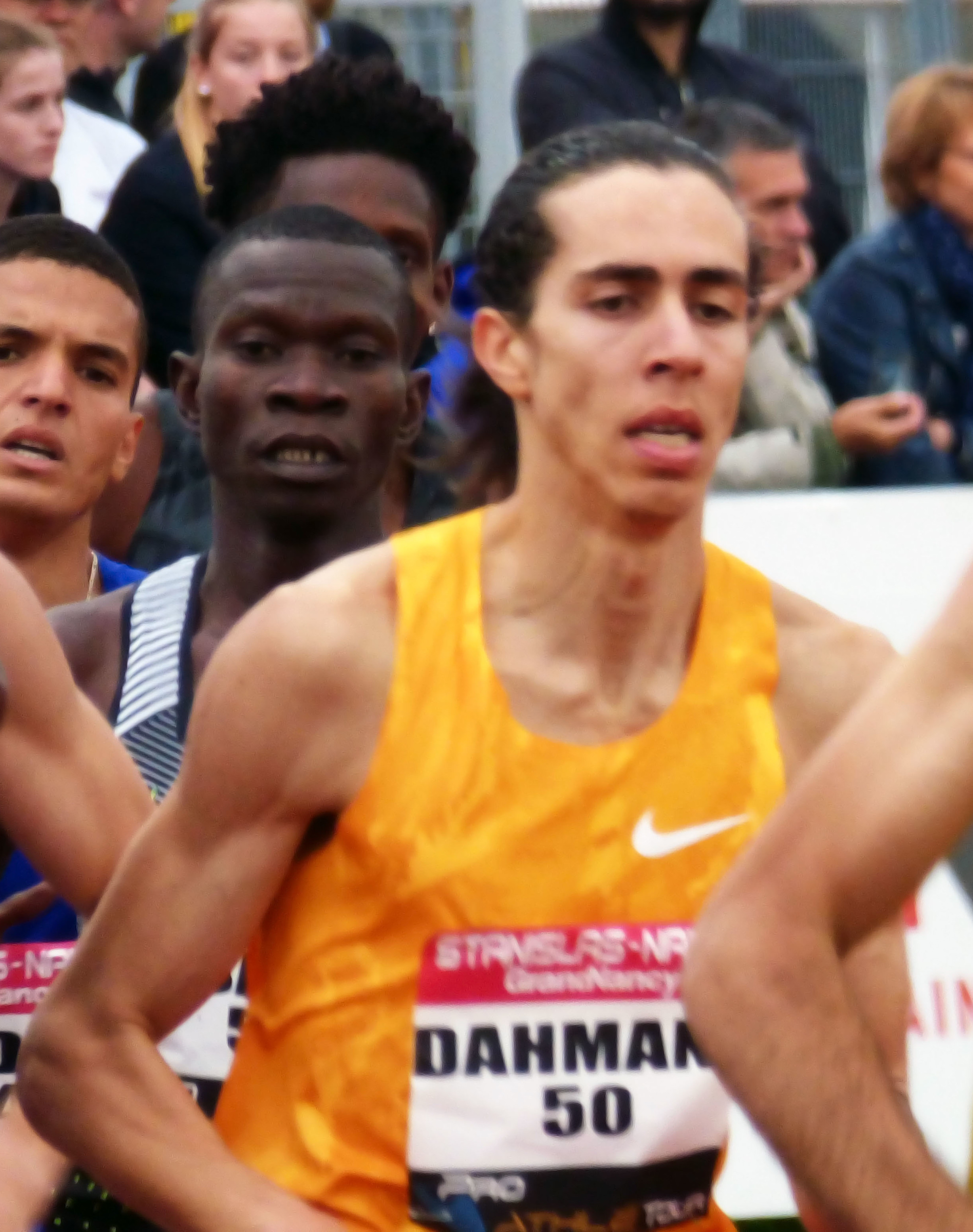 2016 Meeting Stanislas